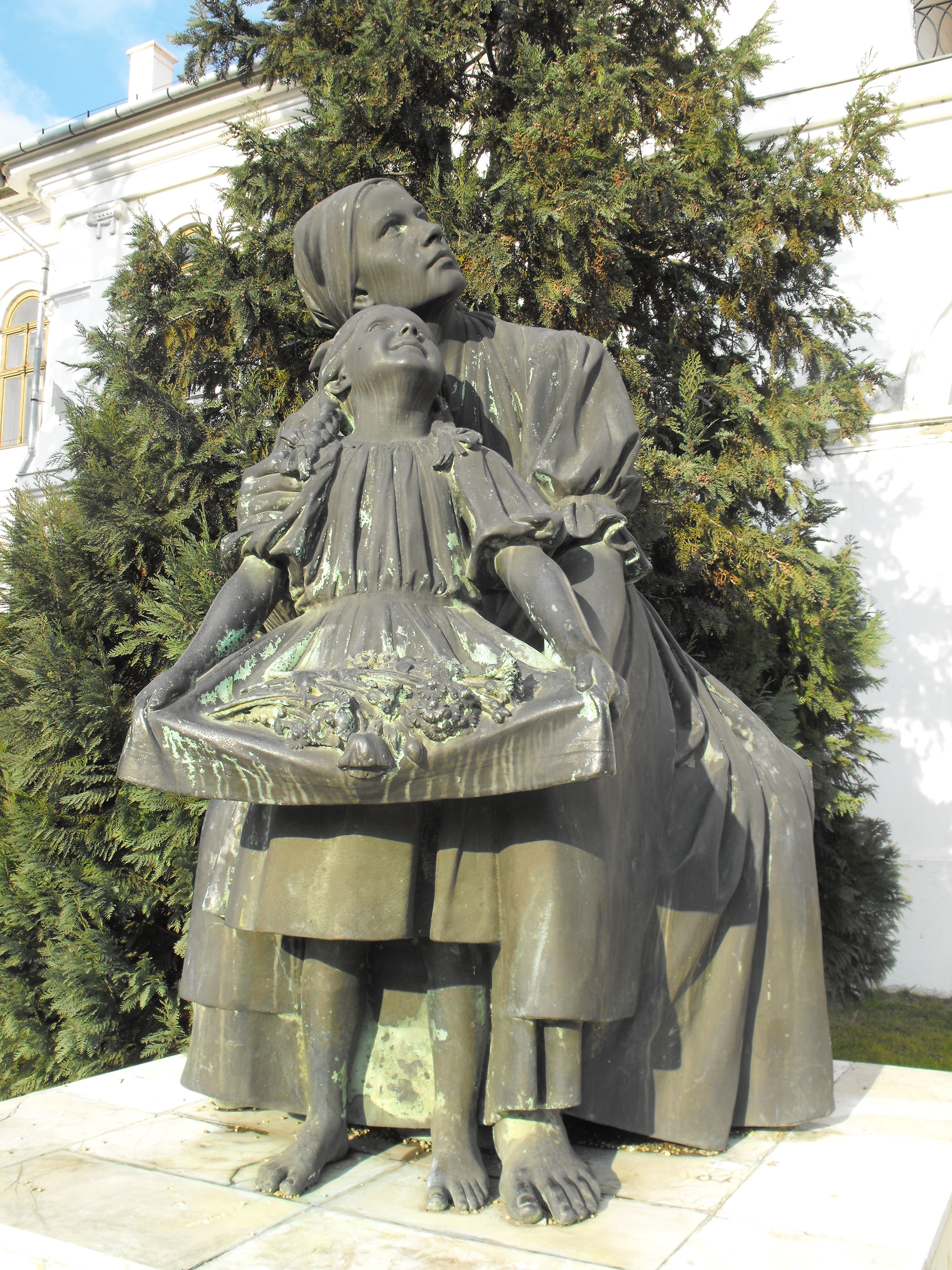 Side figure of the Návay Lajos statue in Makó, Hungary.